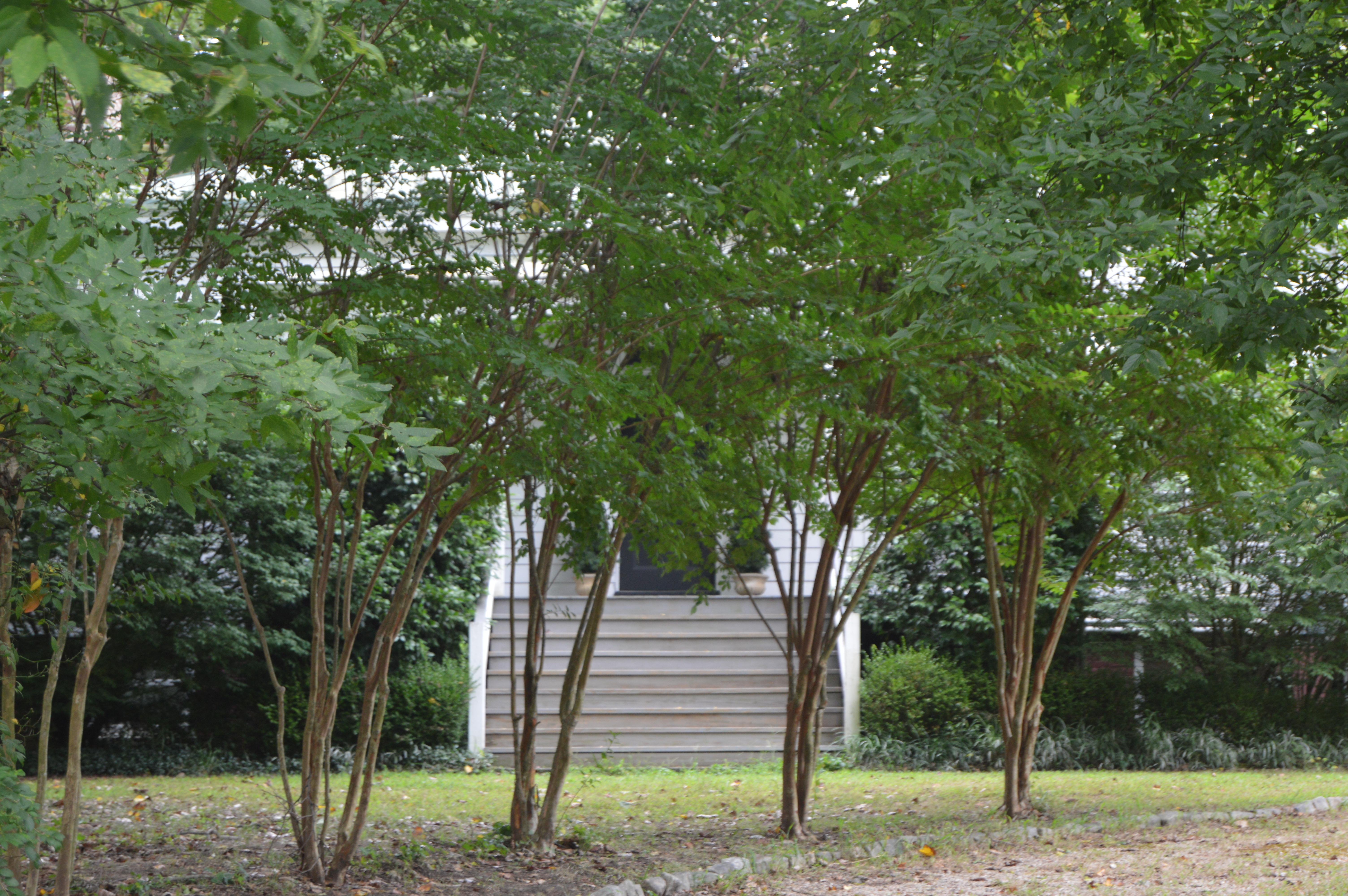 Front of Edge Hill, located at 1107 Greenview Drive outside of Richmond in Henrico County, Virginia, United States. Built in 1852, it is listed on the National Register of Historic Places.